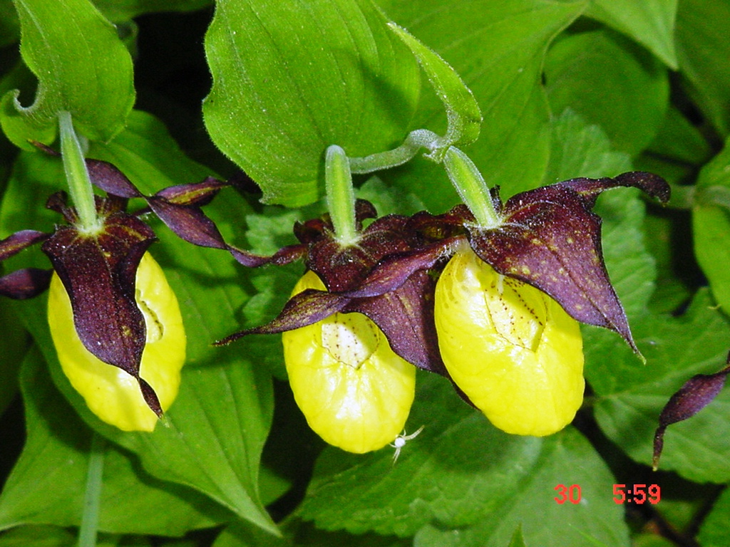 Moccasin flower which grows in Jobova Lhota